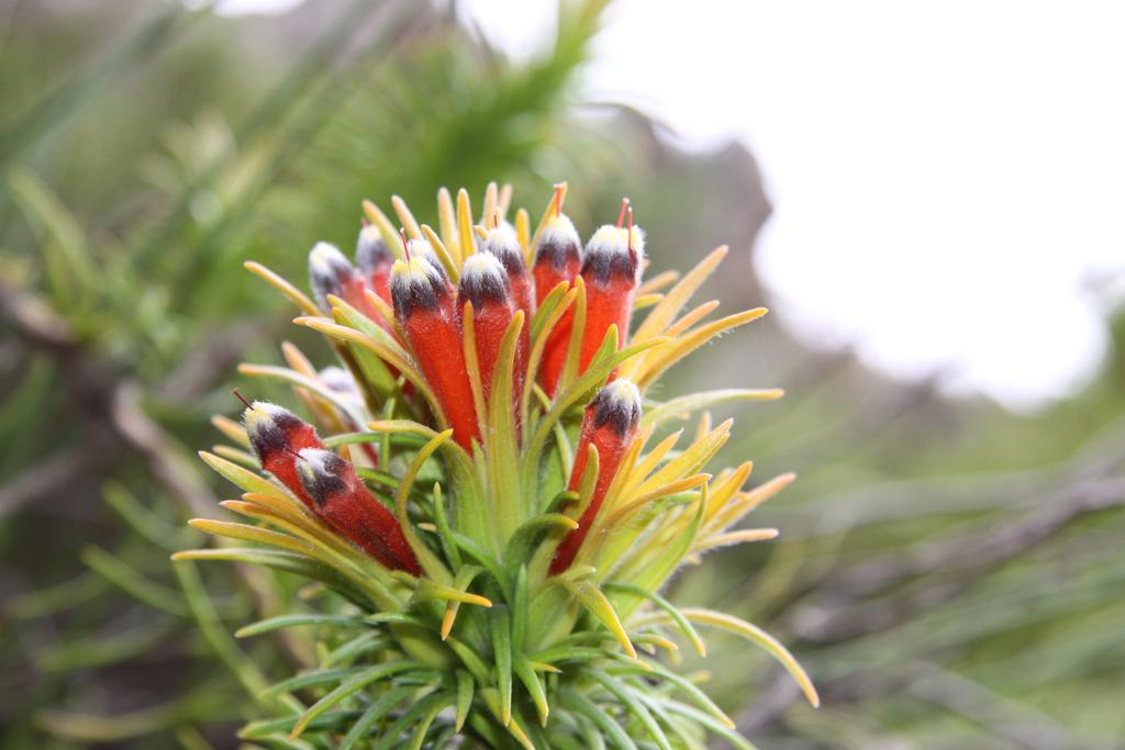 Retzia capensis (heuningblom) - the only member of the family Retziaceae.